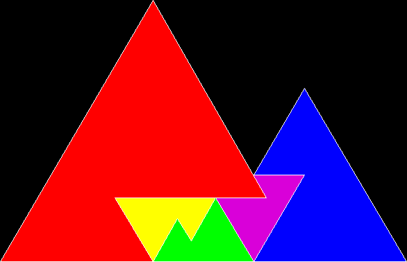 A pentagonal rep-tile discovered by Karl Scherer